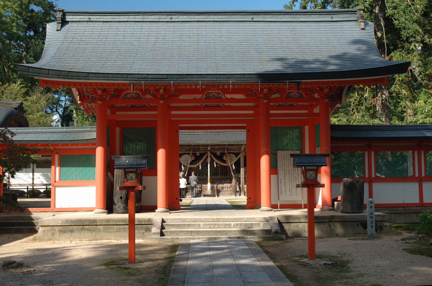 Zuijinmon gate